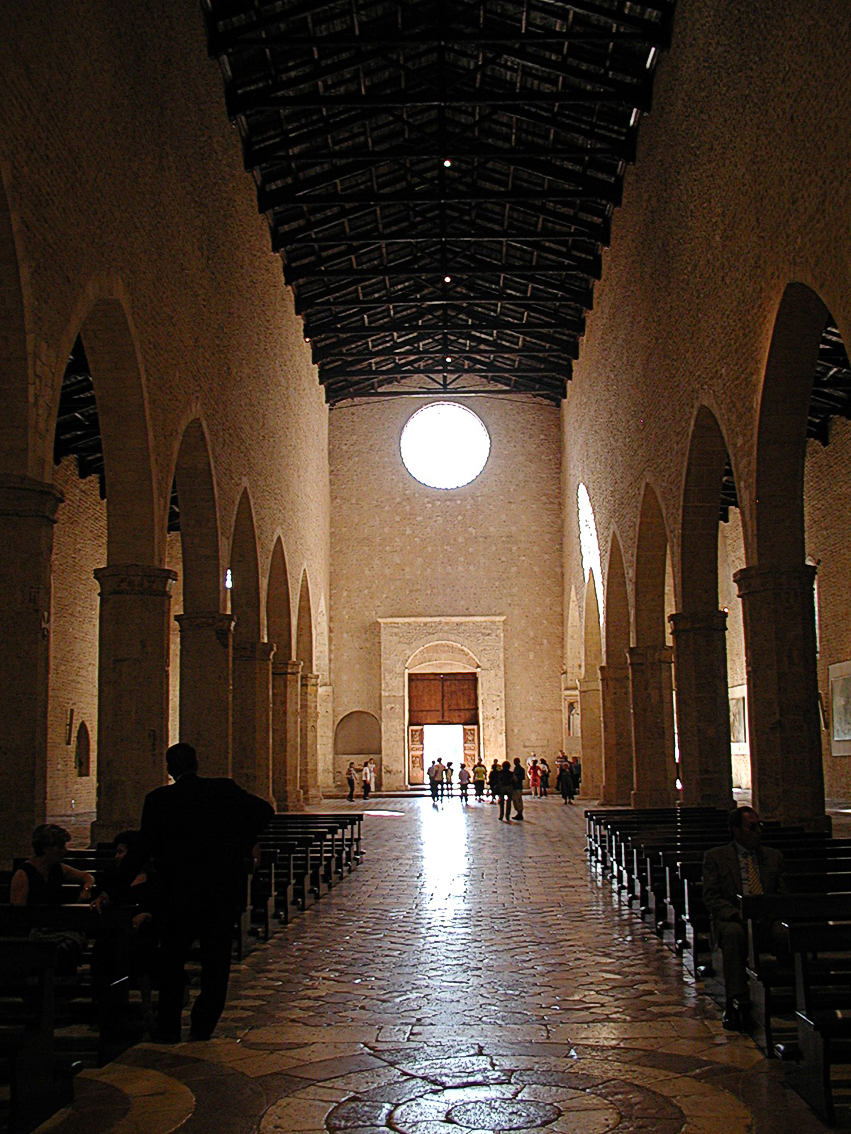 L'Aquila, Basilica di Santa Maria di Collemaggio. Interior view of the central nave facing the counter-façade.